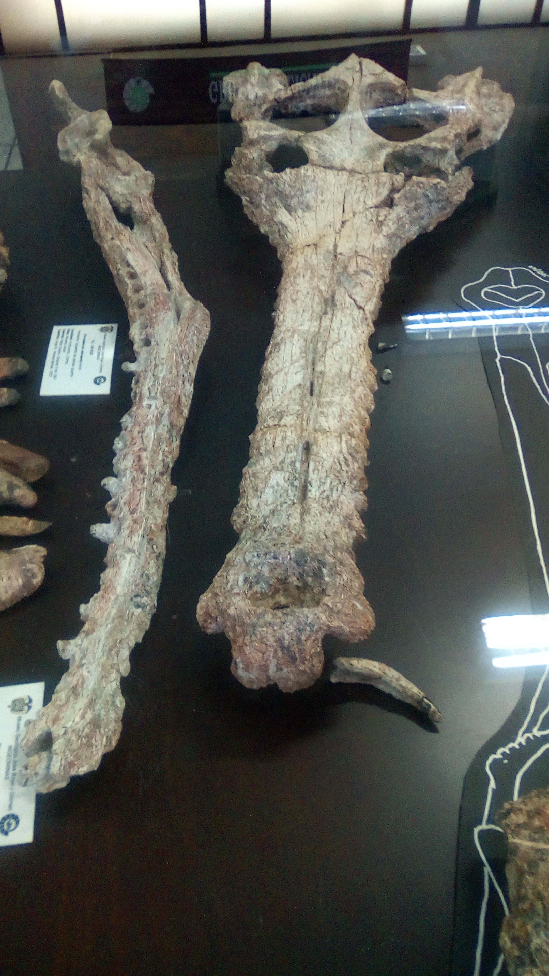 Fossils of skull, a partial mandible and a isolated tooth of the gharial Gryposuchus colombianus. Museo Geológico José Royo y Gómez, Bogotá.